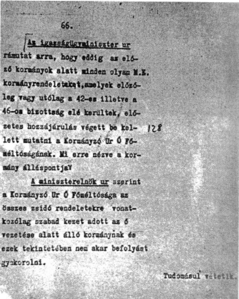 Page 66 of the minutes of the Hungarian cabinet meeting on March 29, 1944, showing that Regent Horthy delegated his authority to the cabinet on matters concerning Jews.